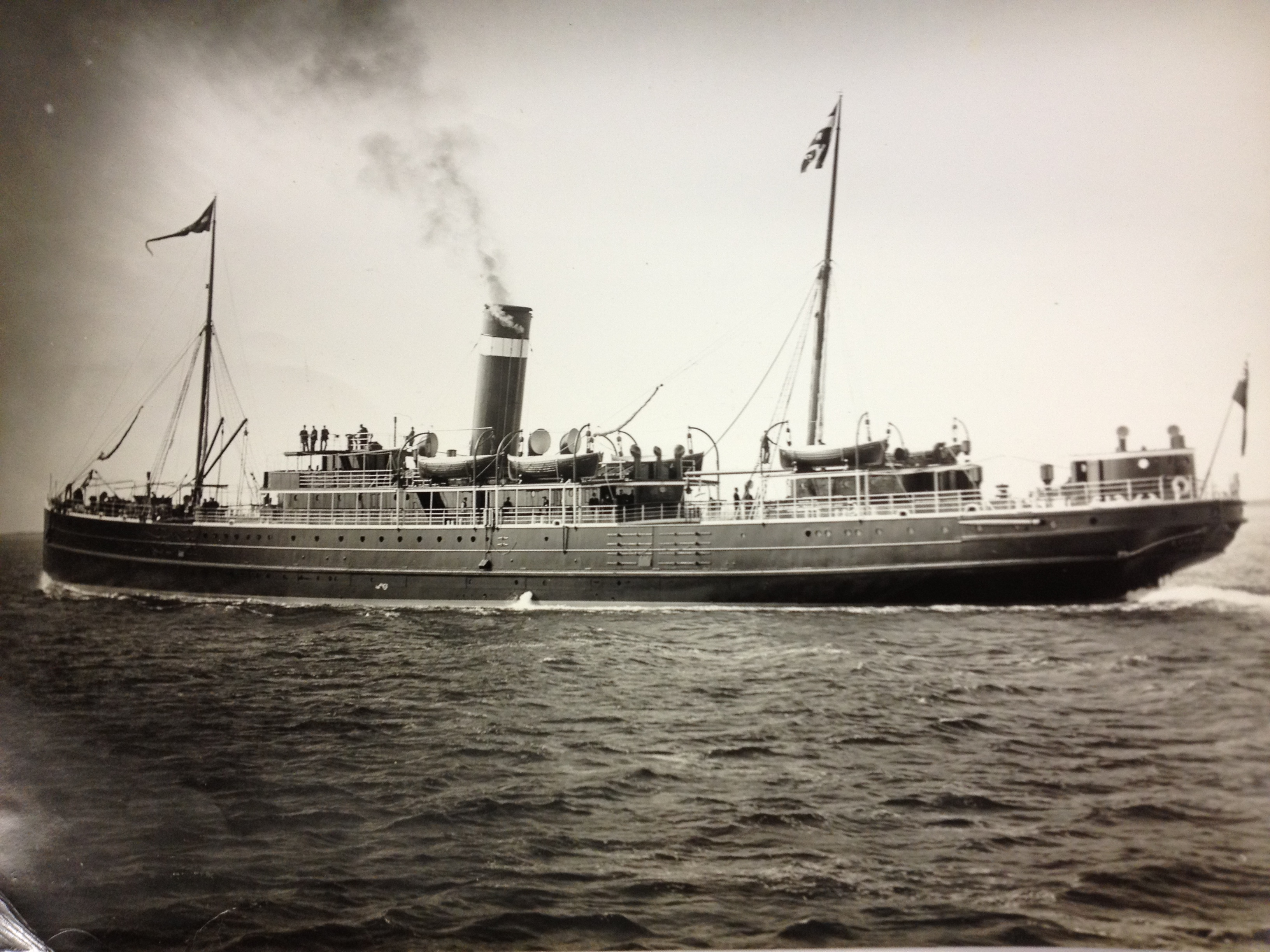 SS Duke of Cornwall, prior to being purchased by the Isle of Man Steam Packet Company, and re-named Rushen Castle.